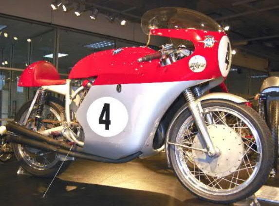 MV Agusta